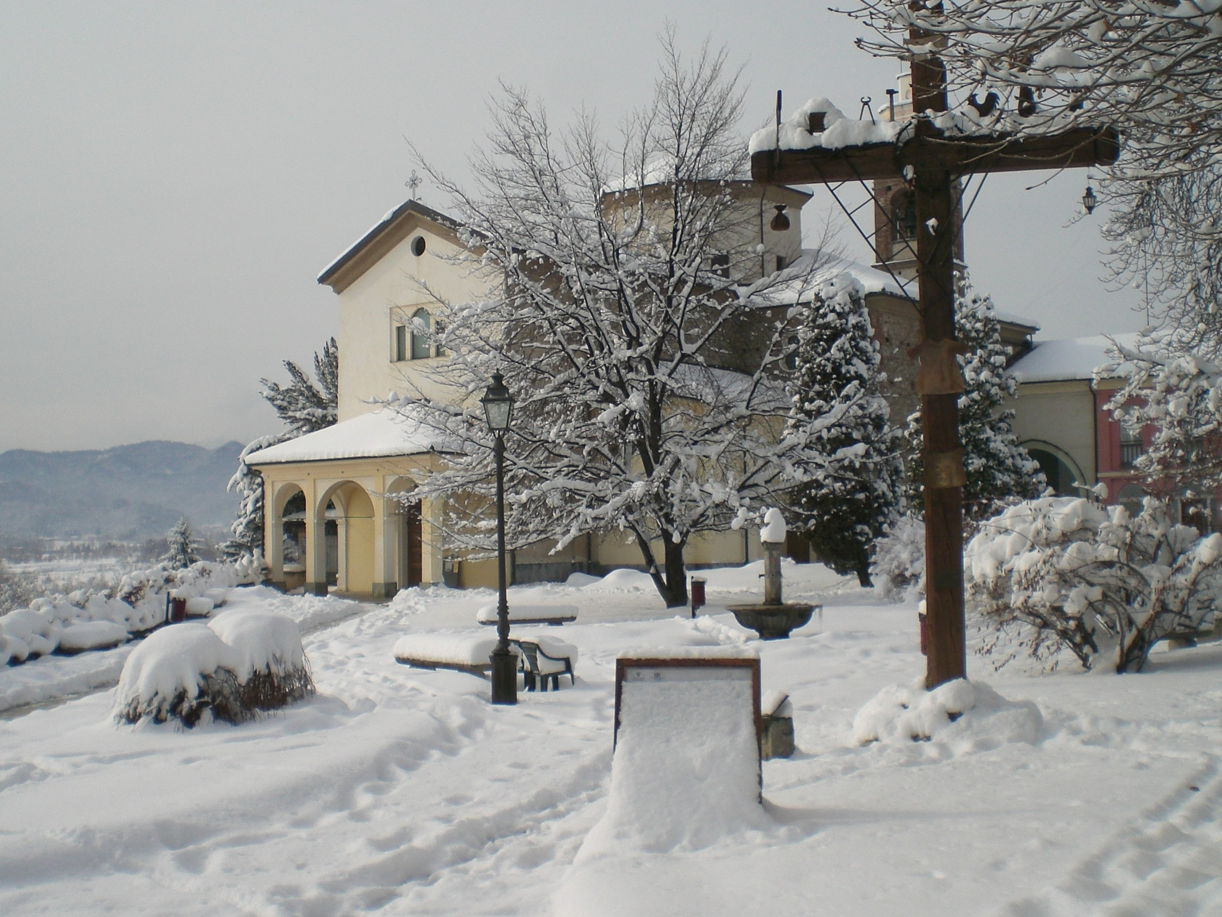 Cuneo - Sanctuary of Our Lady of the Angels - outside view and park - 7/3/2010